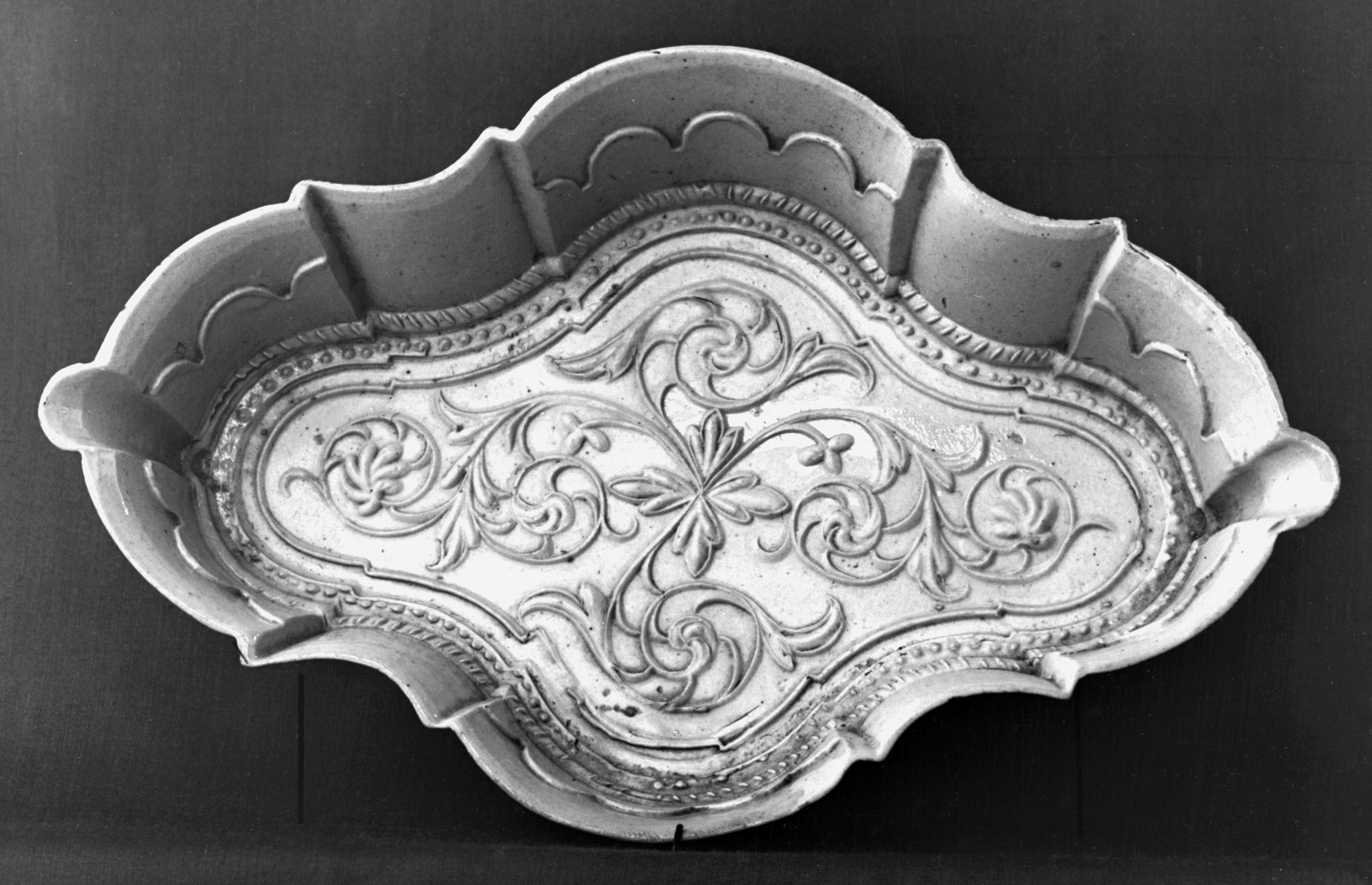 British, Staffordshire; Spoon tray; Ceramics-Pottery